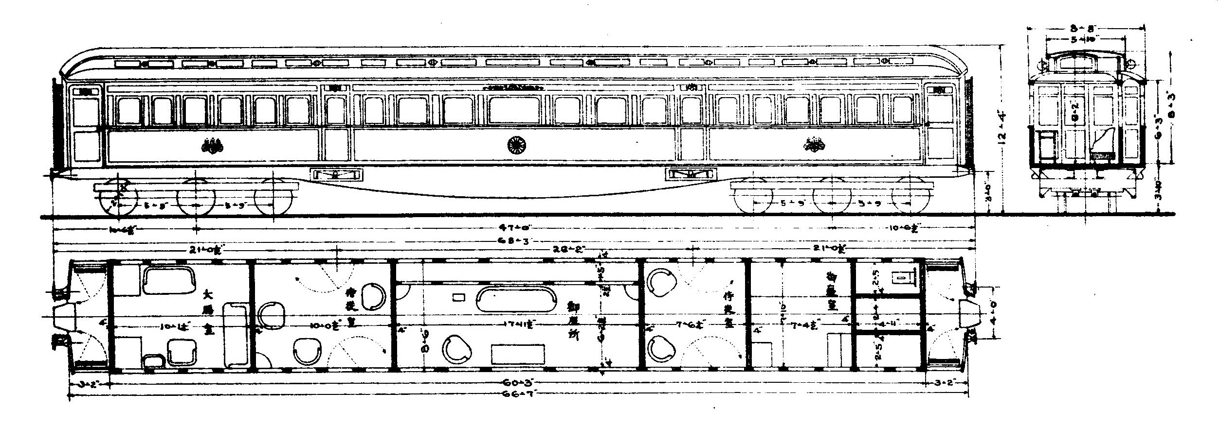 Type drawing of JGR's Imperial Car (Goryosha) No.6